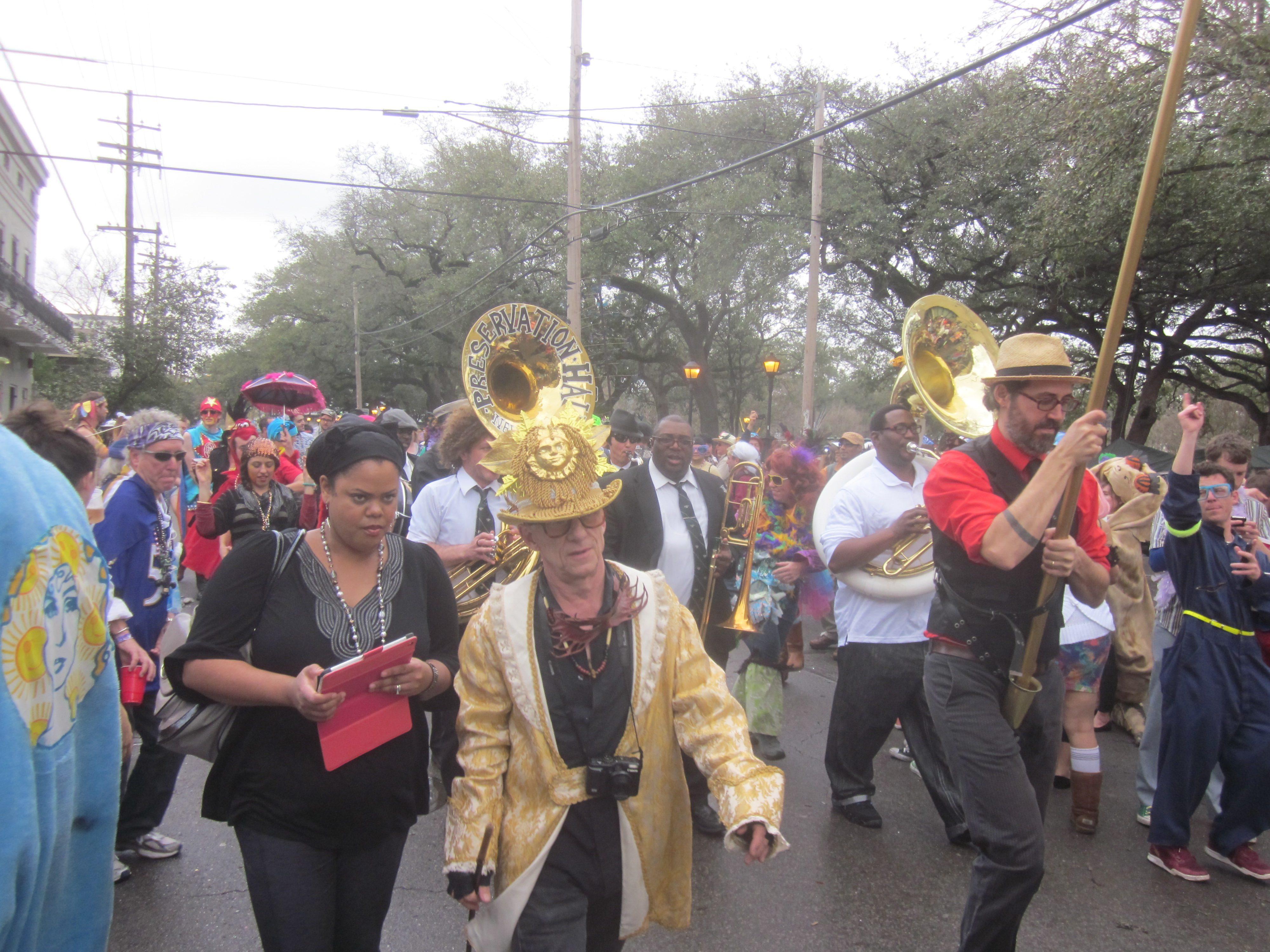 Mardi Gras Day in New Orleans. Frenchmen Street, Faubourg Marigny.